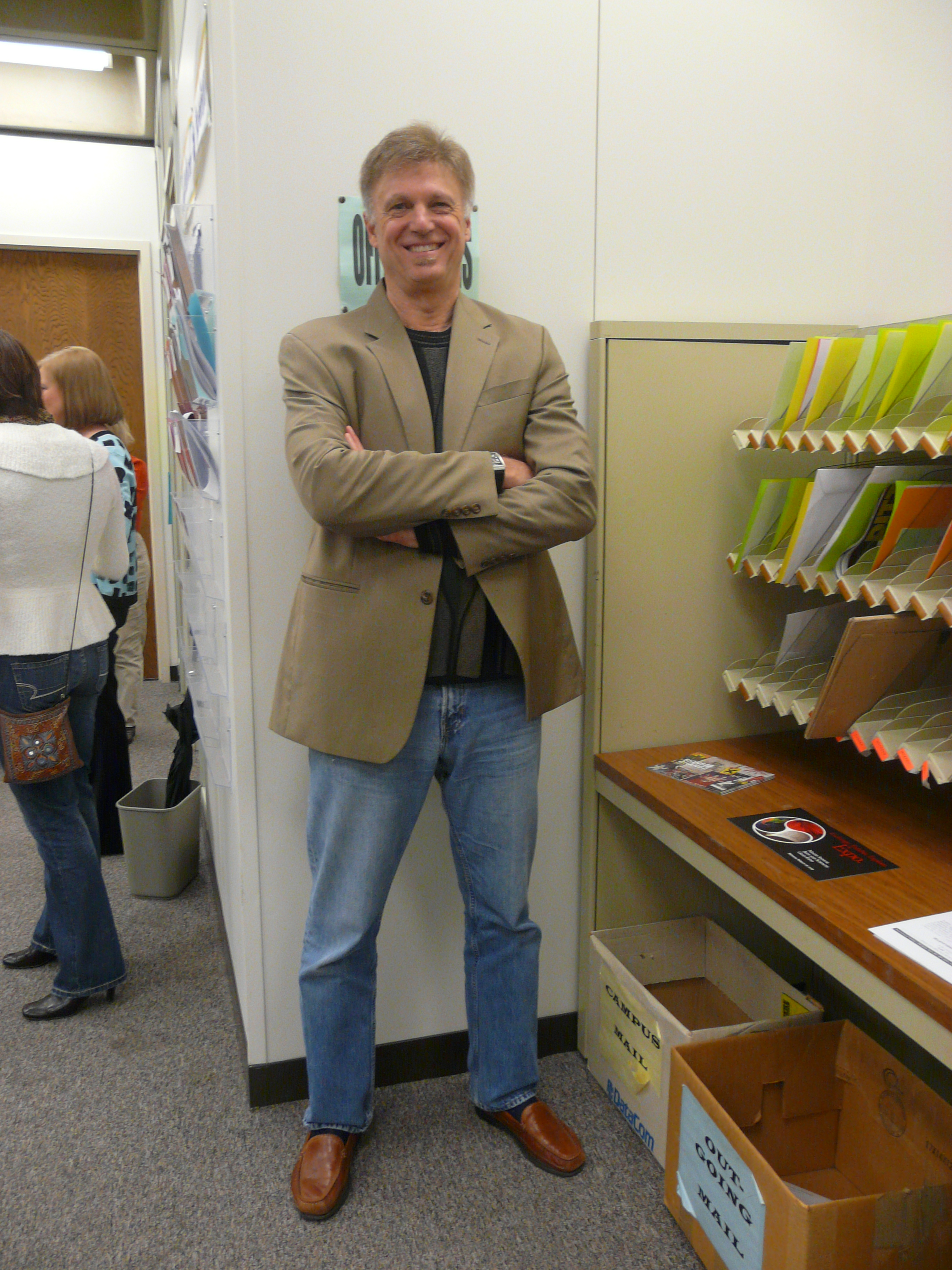 Doug McAdam at U of Pitt